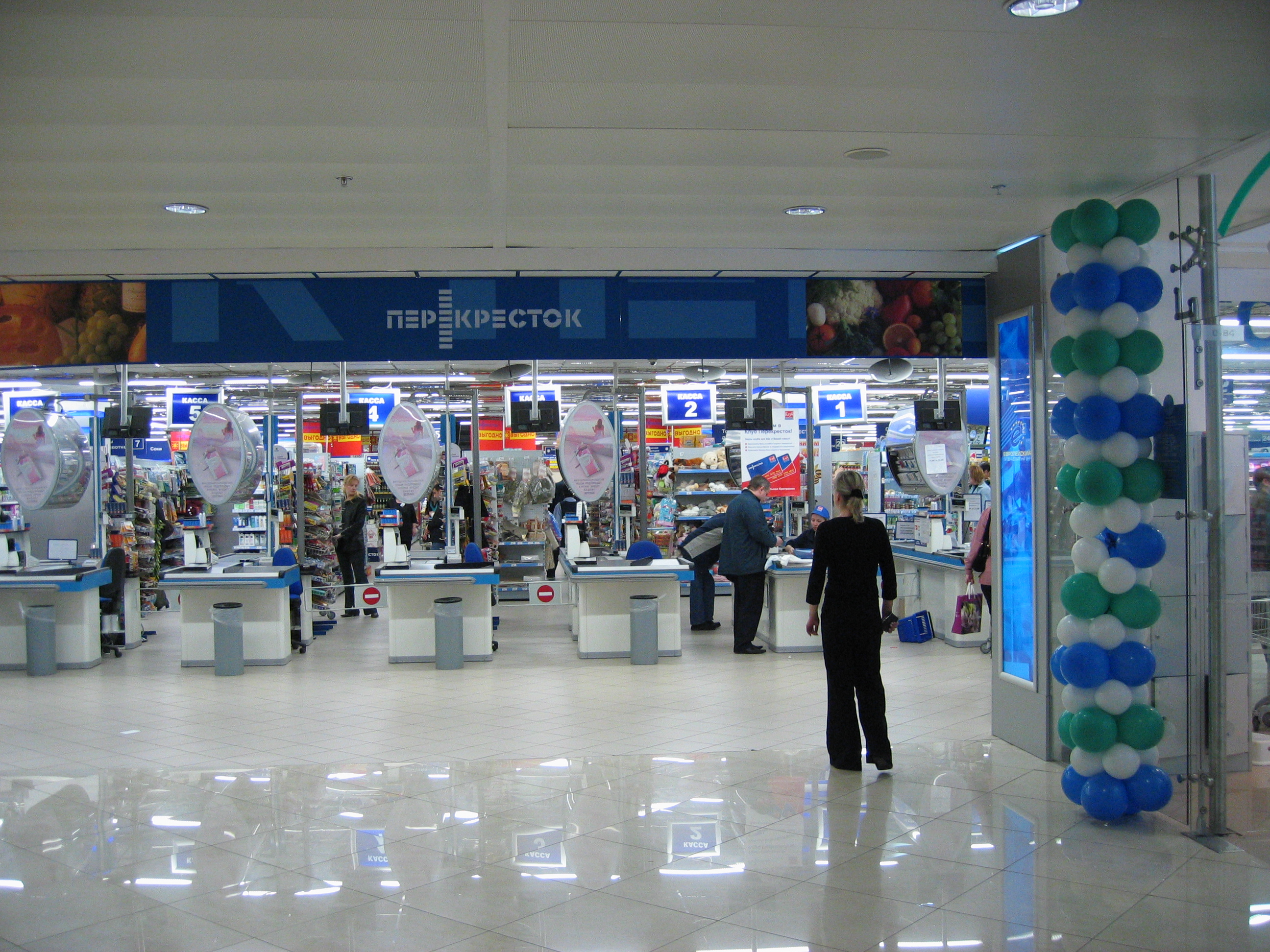 A Perekrestok supermarket in Moscow